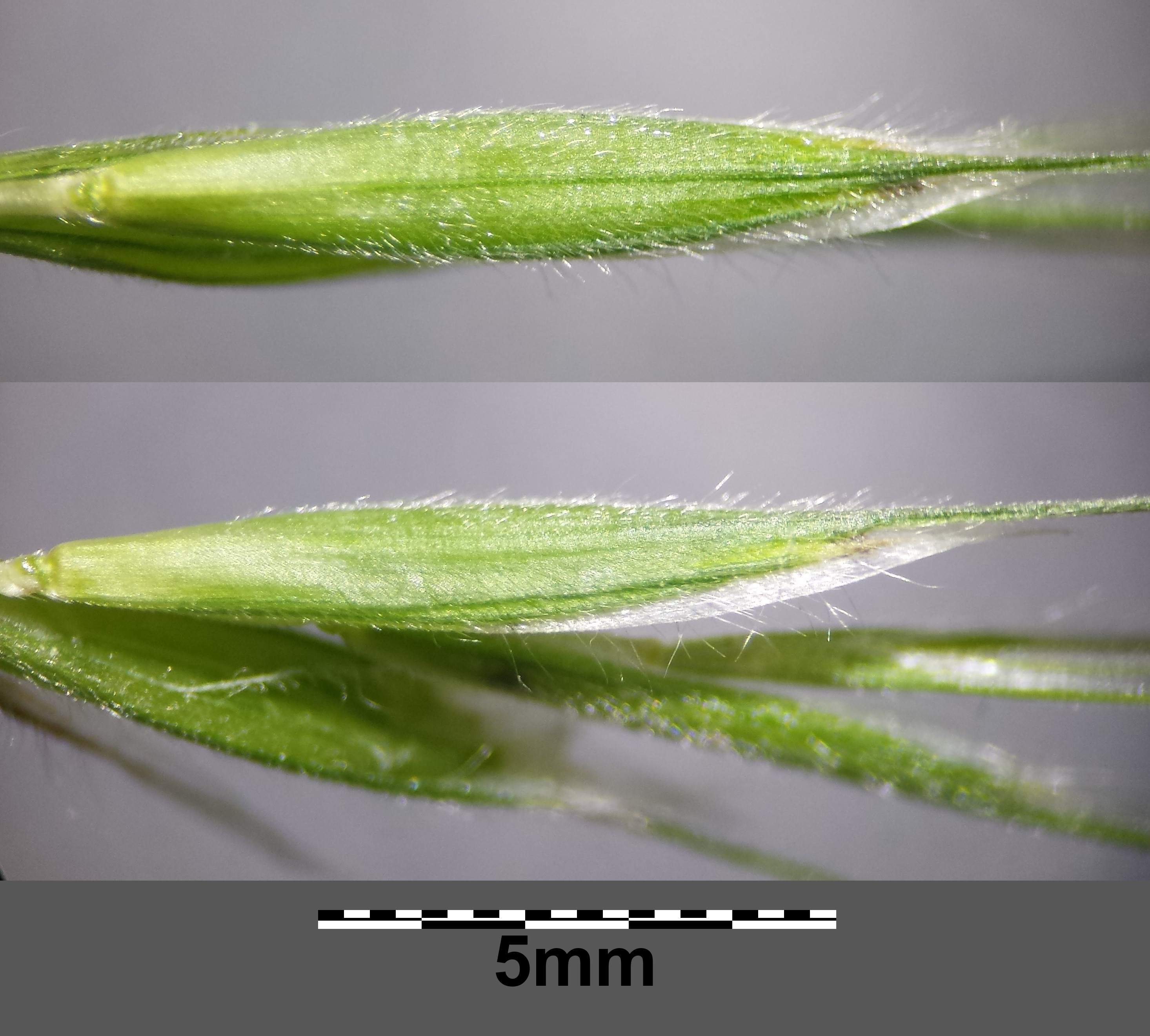 Lemma Taxonym: Bromus tectorum ss Fischer et al. EfÖLS 2008 ISBN 978-3-85474-187-9 Location: Jedlersdorf rail station, Vienna-Floridsdorf - ca. 160 m a.s.l. Habitat: ruderal area